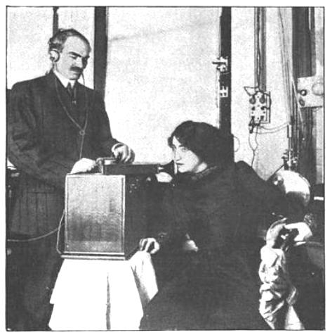 Photograph of a February 24, 1910 radio broadcast, from Lee DeForest's laboratory in New York City, by Mme. Mariette Mazarin of the Manhattan Opera Company. From "A Review of Radio" by Lee DeForest, page 333 of the August, 1922 issue of Radio Broadcast.